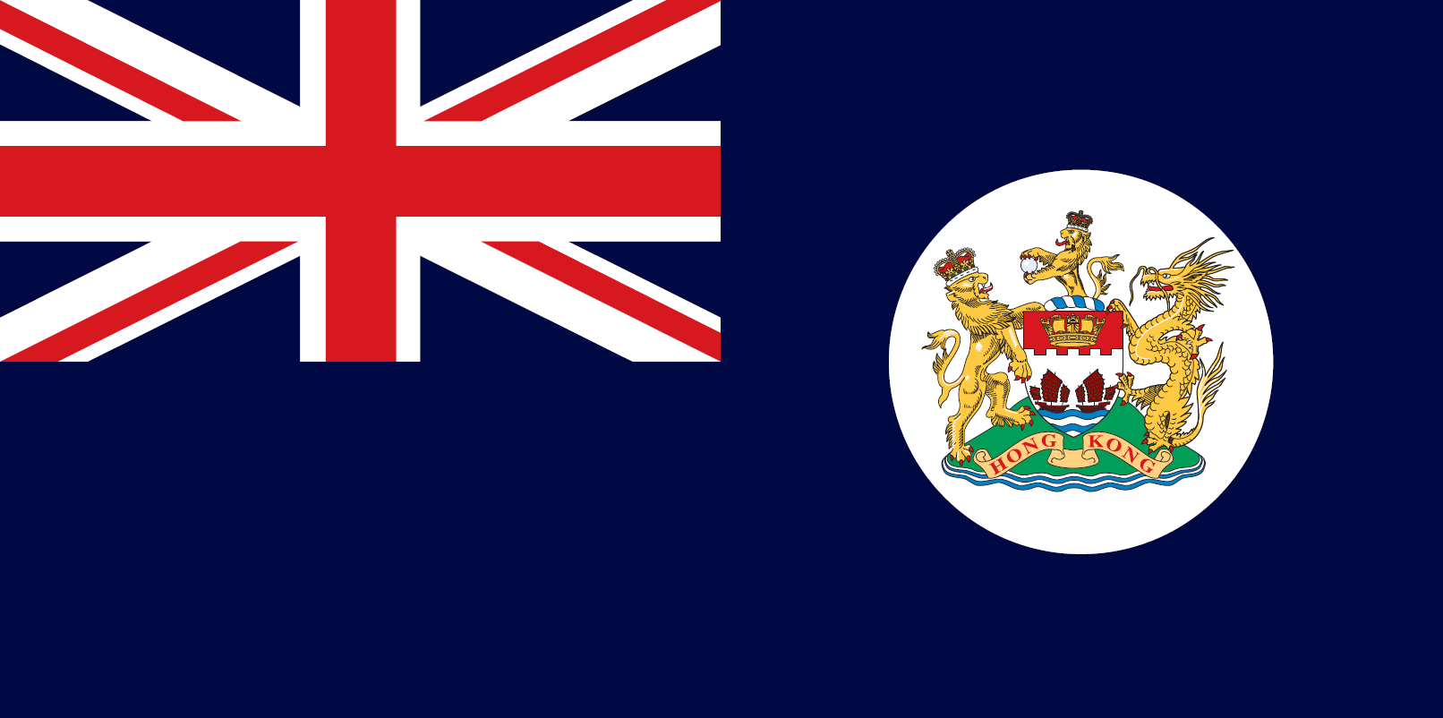 Flag of Hong Kong (1959)